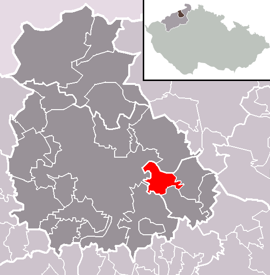 Location of Velké Březno municipality within Ústí nad Labem District and administrative area of Ústí nad Labem as a Municipality with Extended Competence.